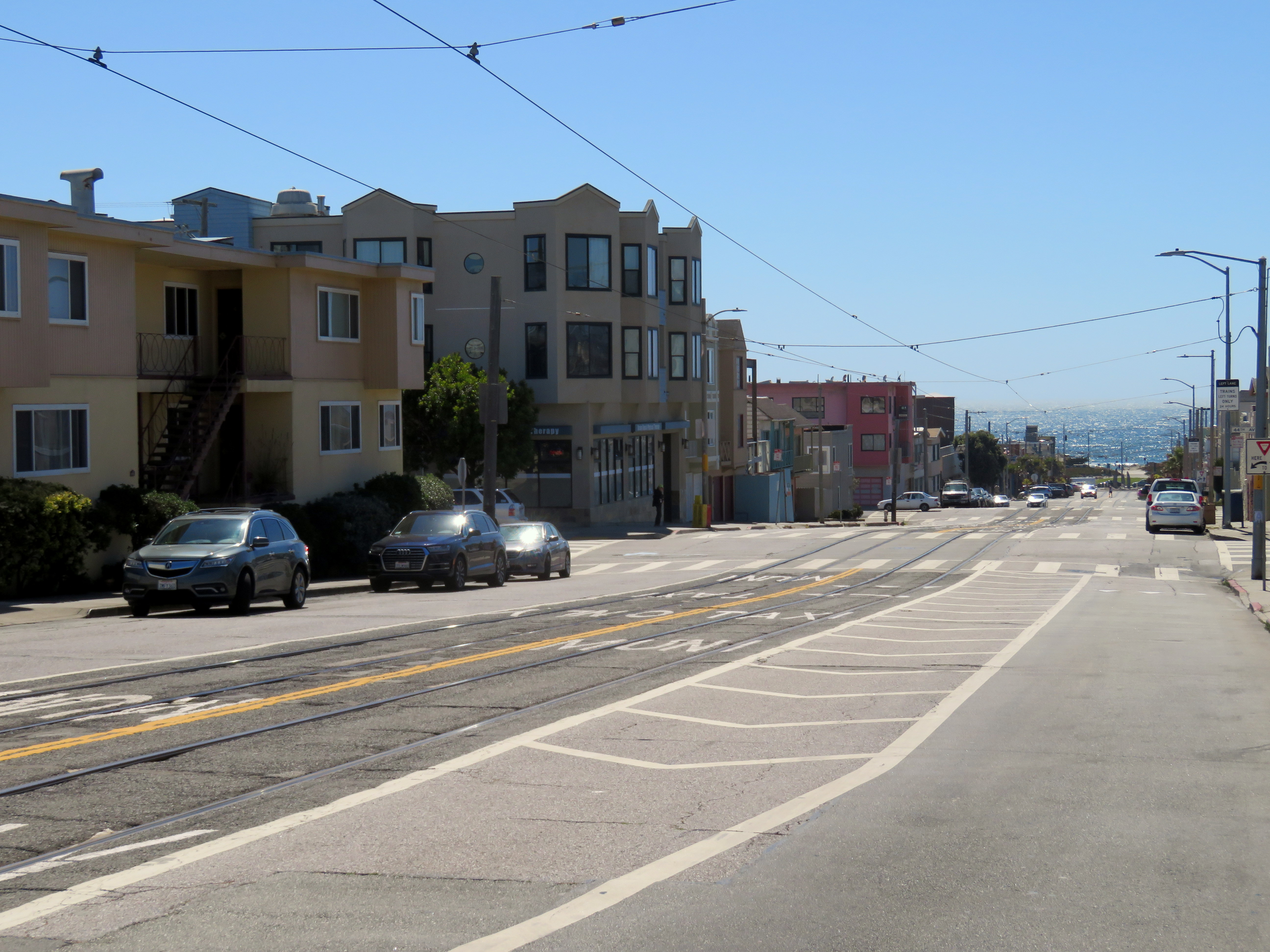 Outbound clear zone at Taraval and 44th Avenue in June 2018